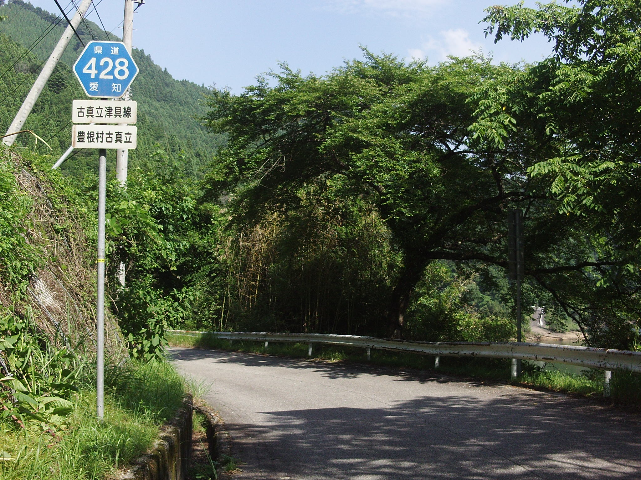 The Aichi Prefectural Road Route 428 in Komadate, Toyone Village